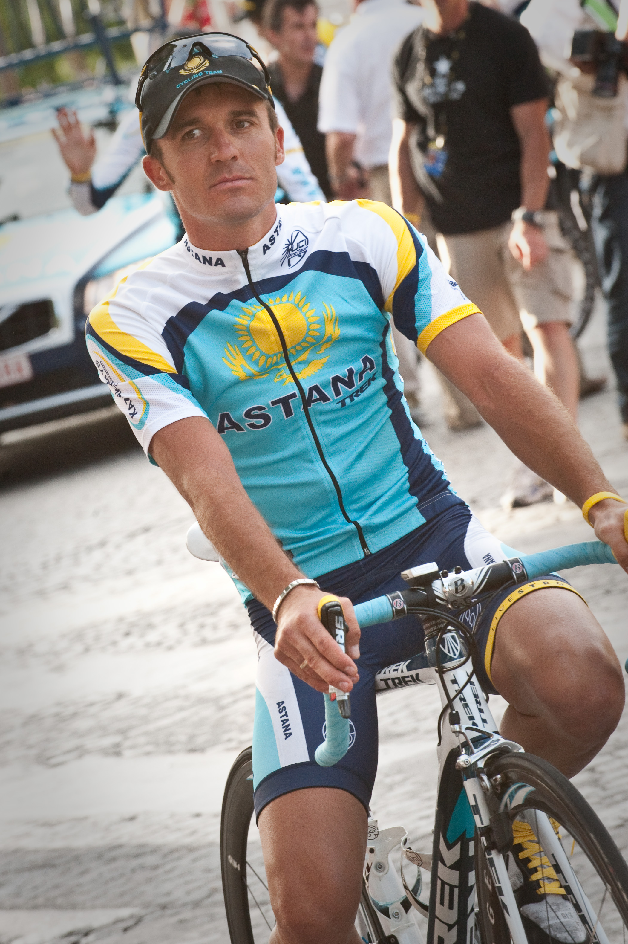 Tour de France 2009 - Parade Lap